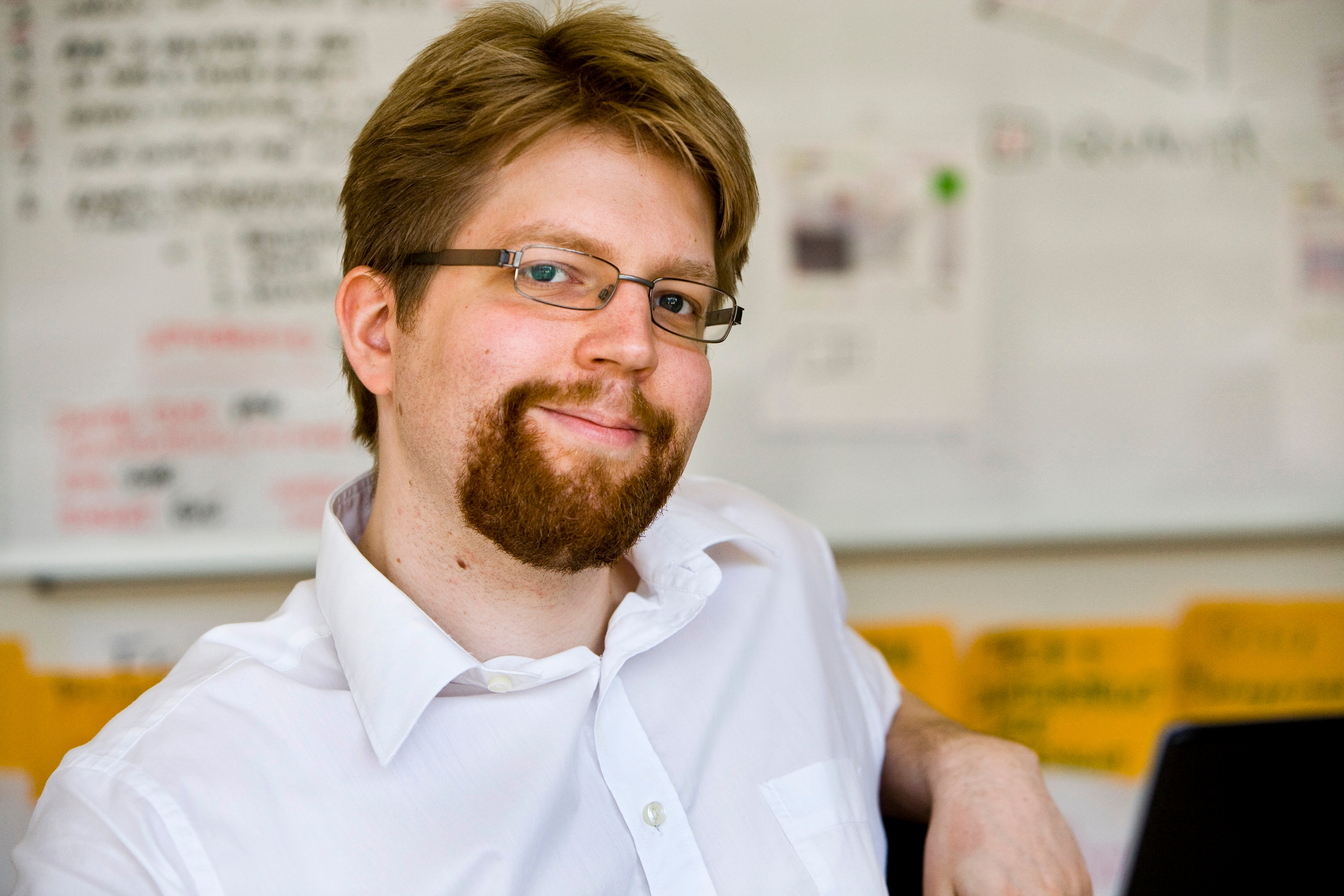 Wikimedia Foundation staff portrait of Erik Möller.